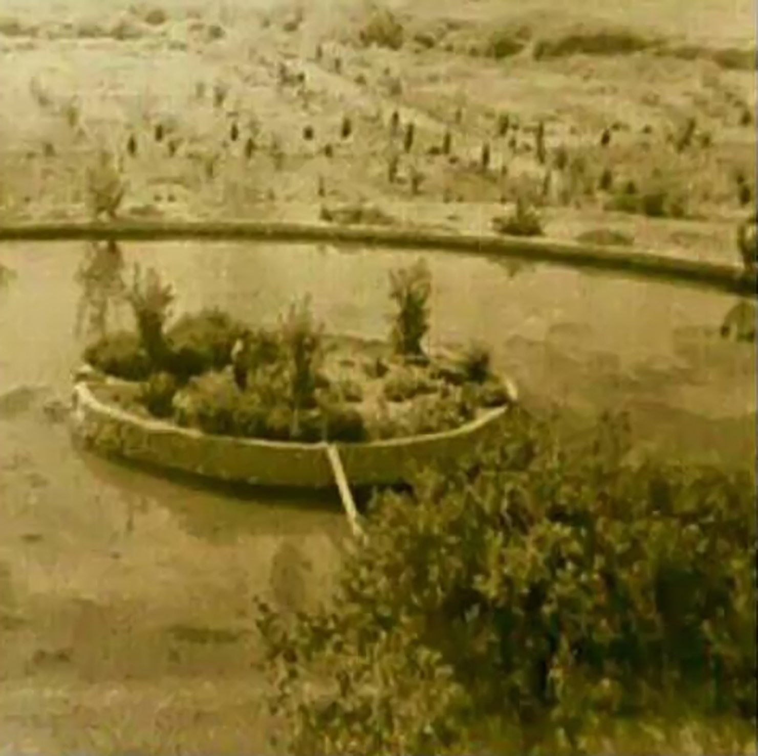 Old photo of cheshme belghais garden, 1957